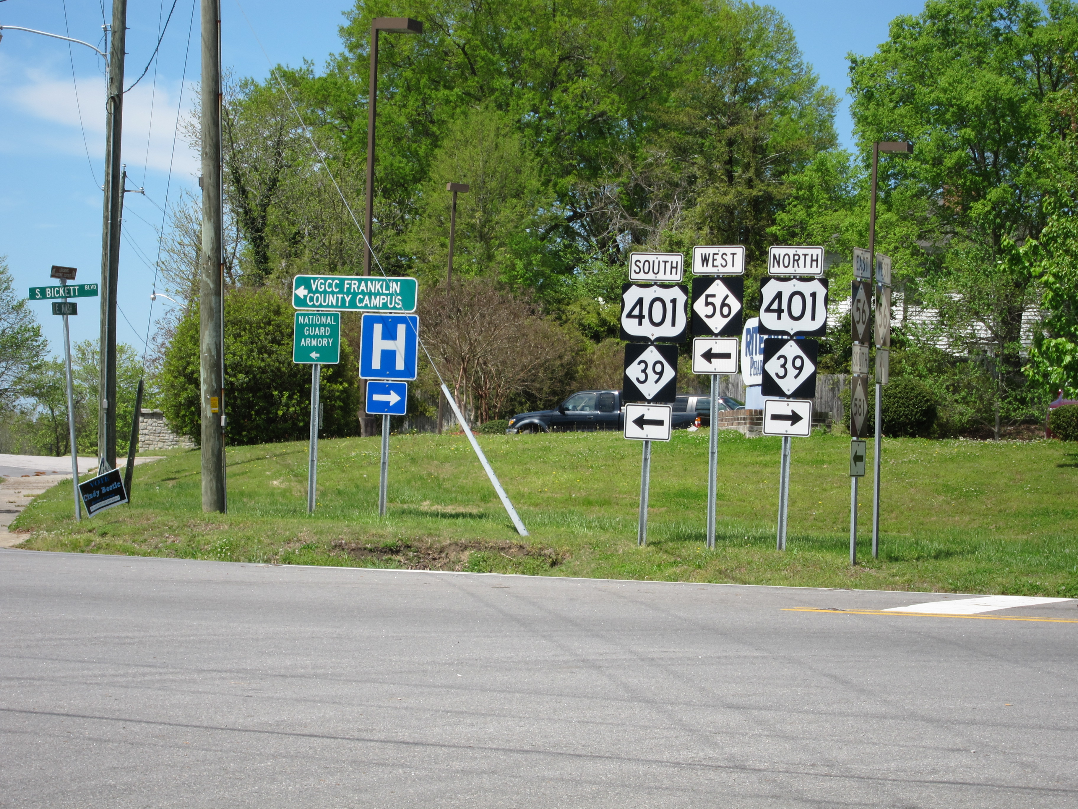 At the intersection of Bickett Boulevard and Nash Street is the northern terminus of NC 581. A highway assembly at intersection directs travelers to other routes in Louisburg.